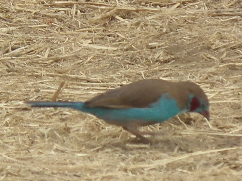 Birds of Tanzania